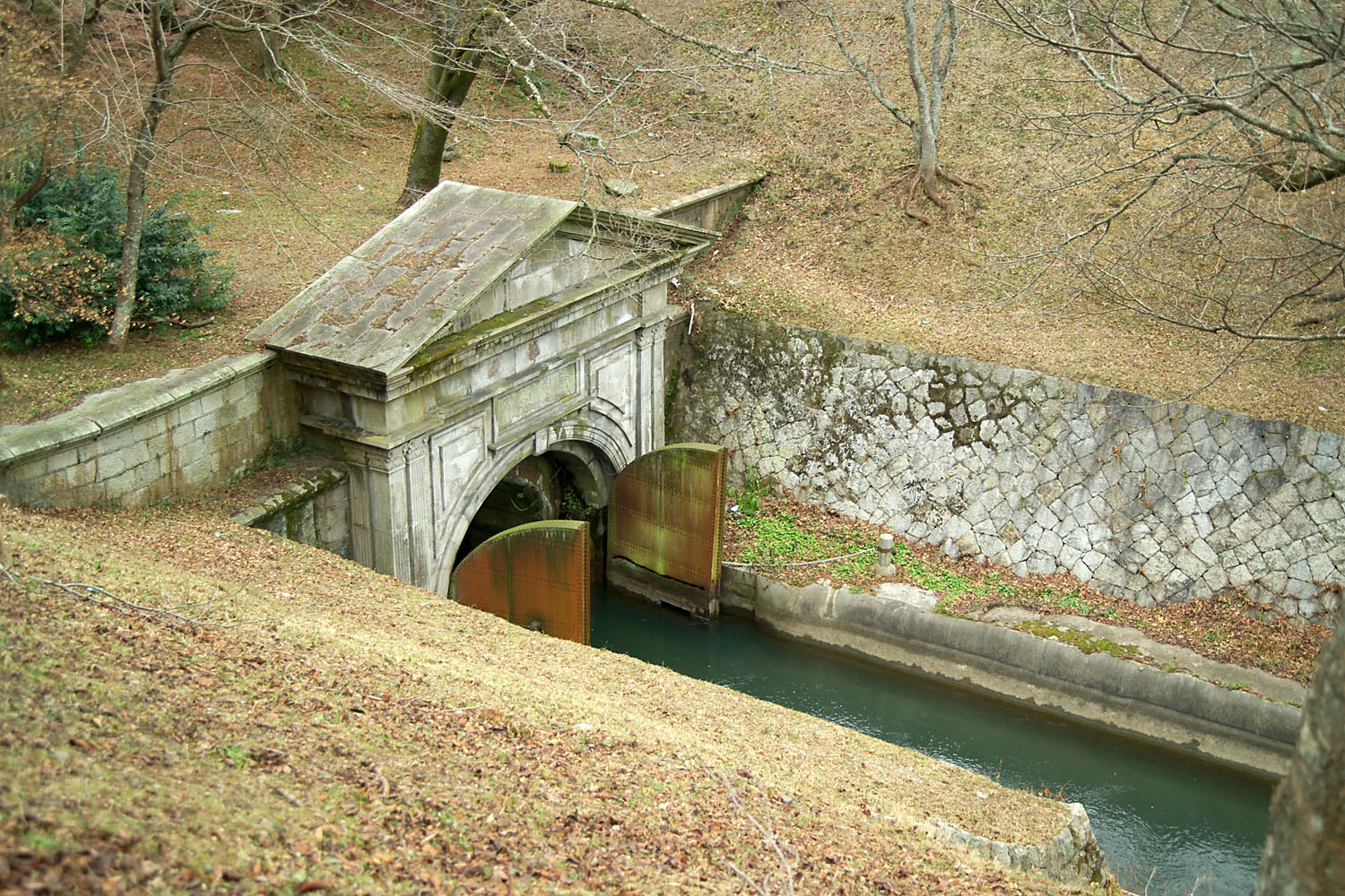 This photo shows the entrance of the Biwako Sosui, a waterway dug to divert water from Lake Biwa in Shiga Prefecture to Kyoto, Japan. This is the terminus in the city of Otsu, Shiga.